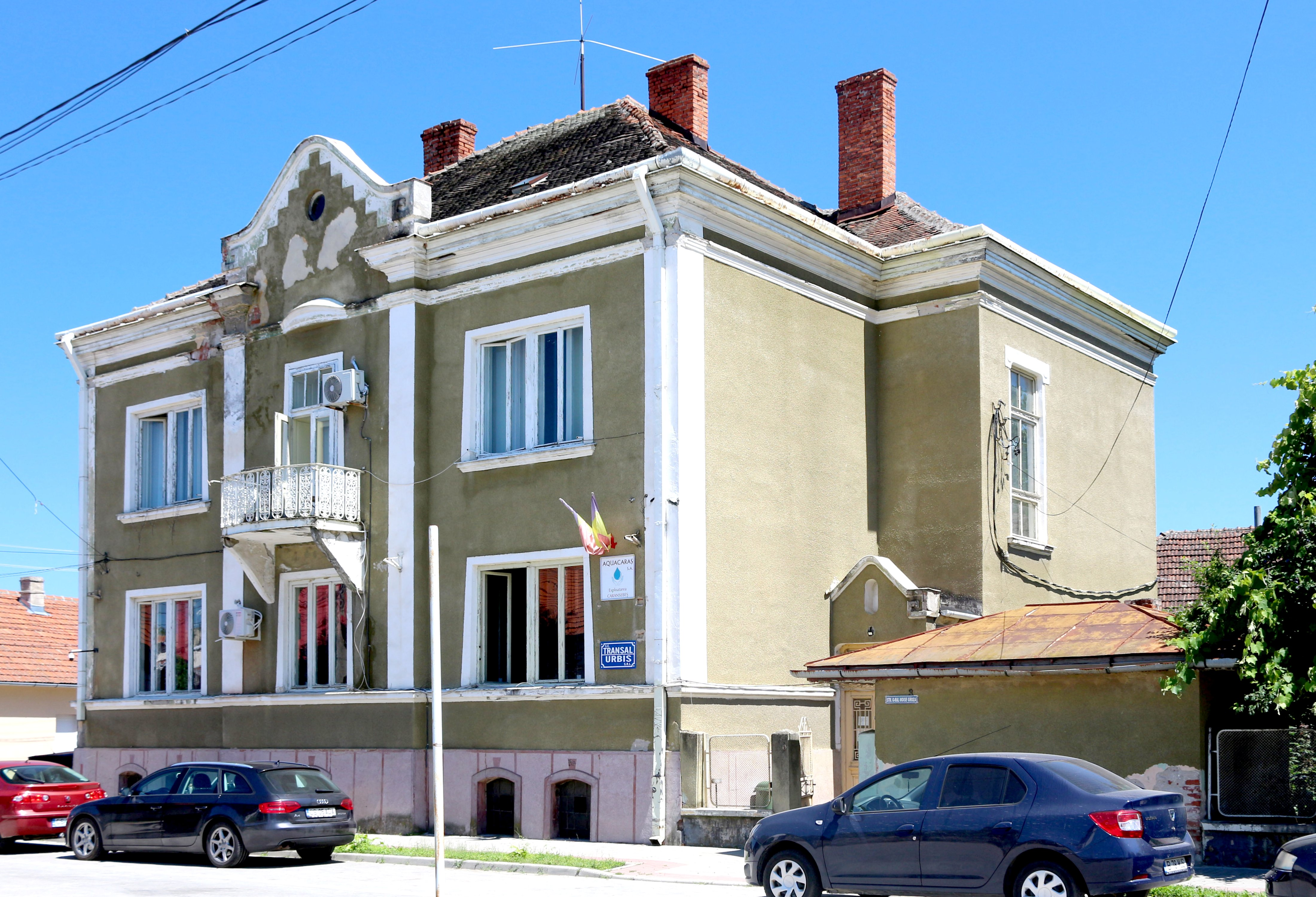 Former non-commissioned officer school, Gen. Moise Groza St., no. 4, Caransebeș, Romania, built 1968